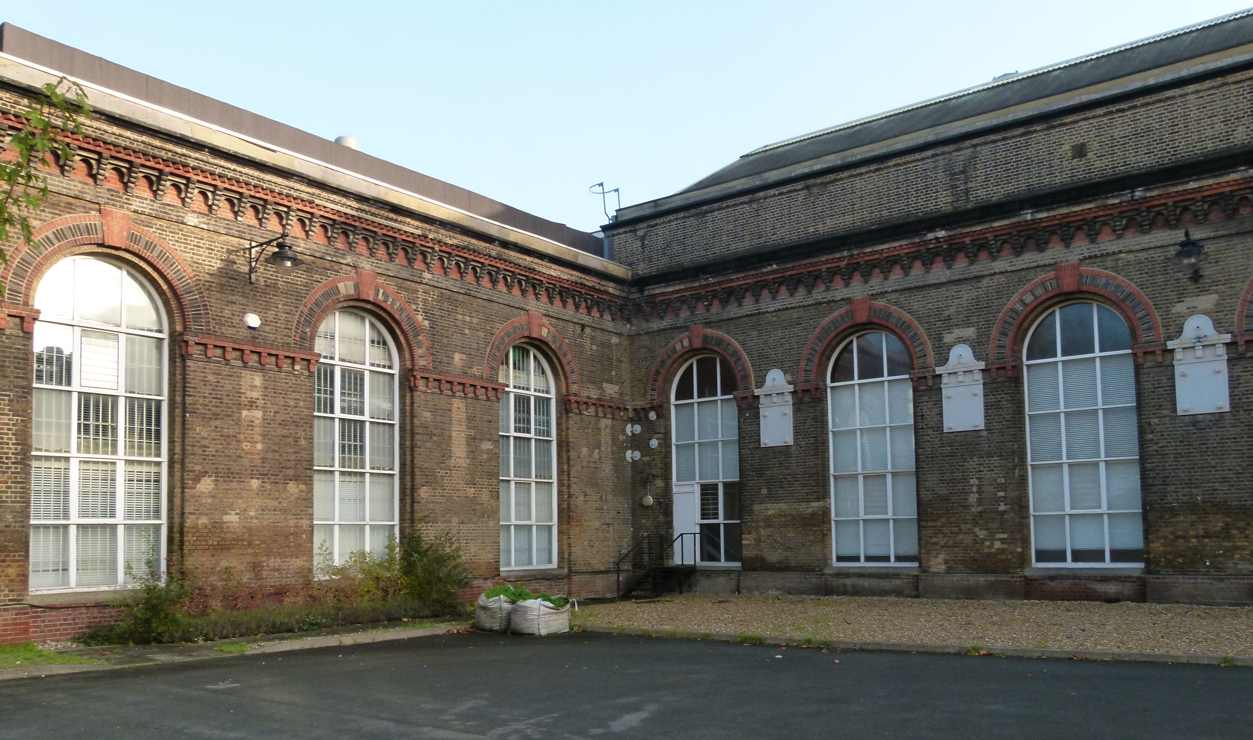 View of Cannon House, the former British Library depot in the Royal Arsenal, Woolwich, South East London.